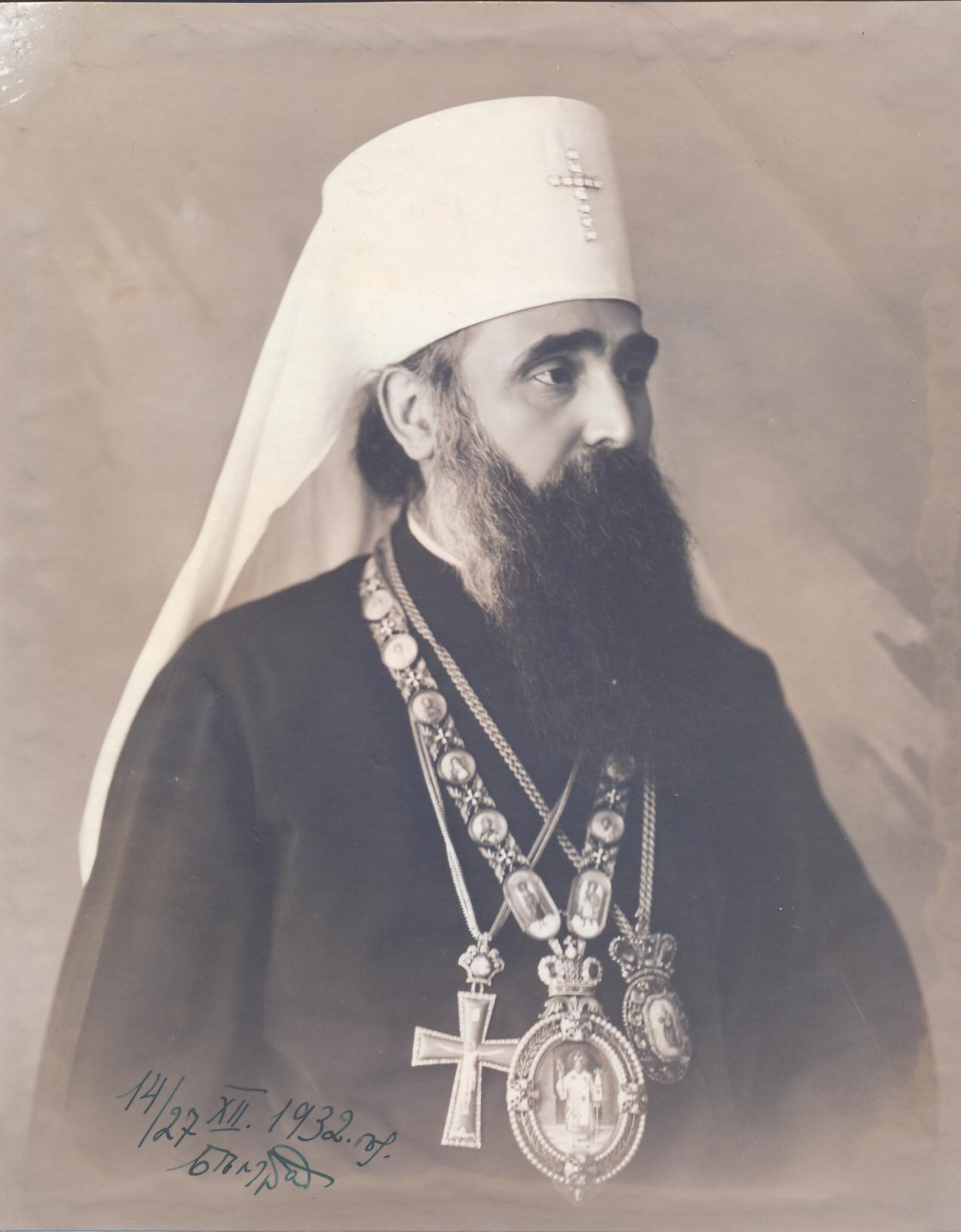 Patriarch Varnava of Serbia